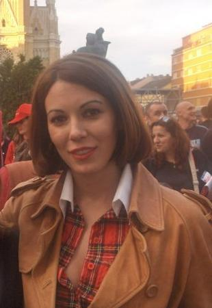 Lena Bogdanović, a Serbian actress, at LDP rally in Novi Sad